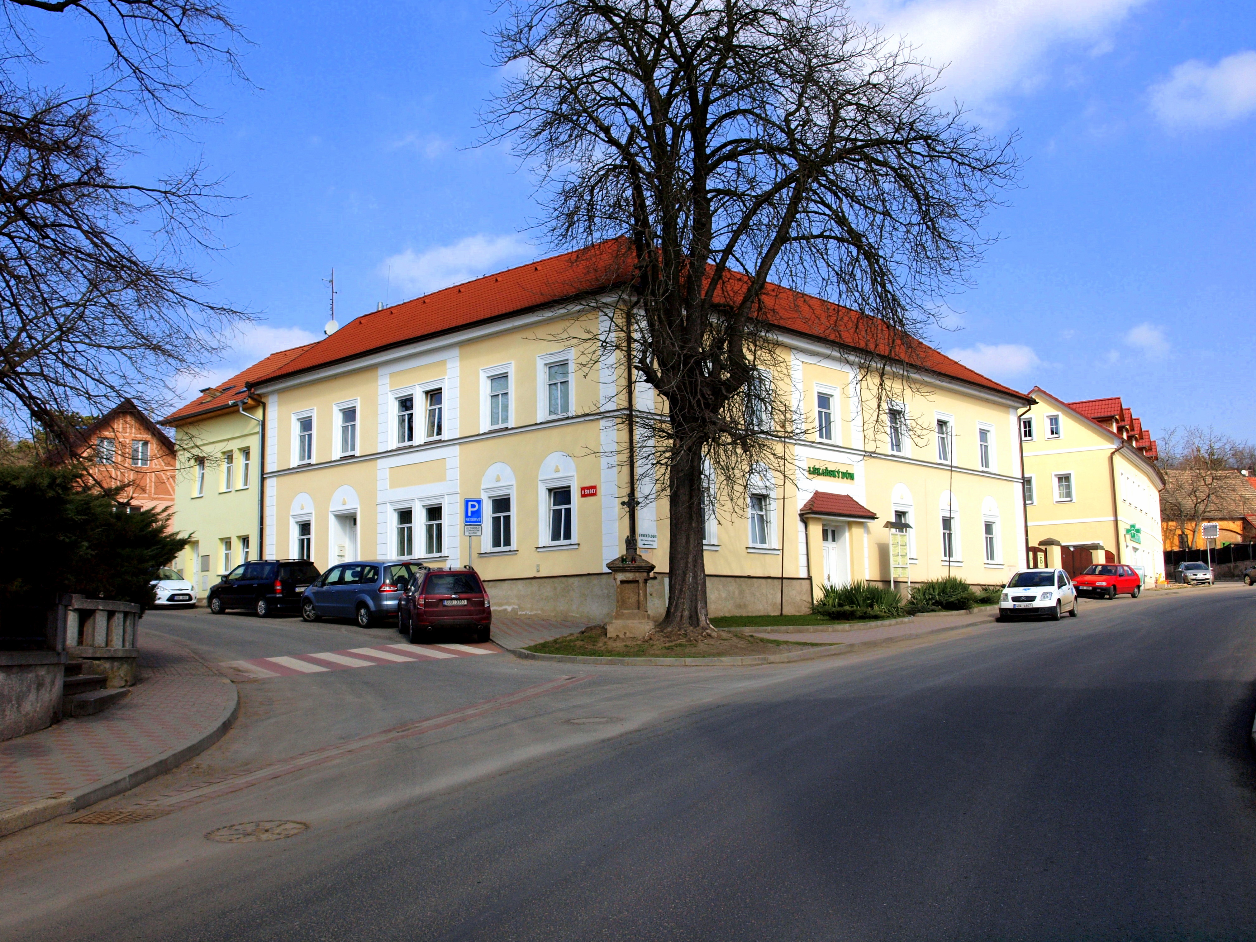 Pokratice - medical centre